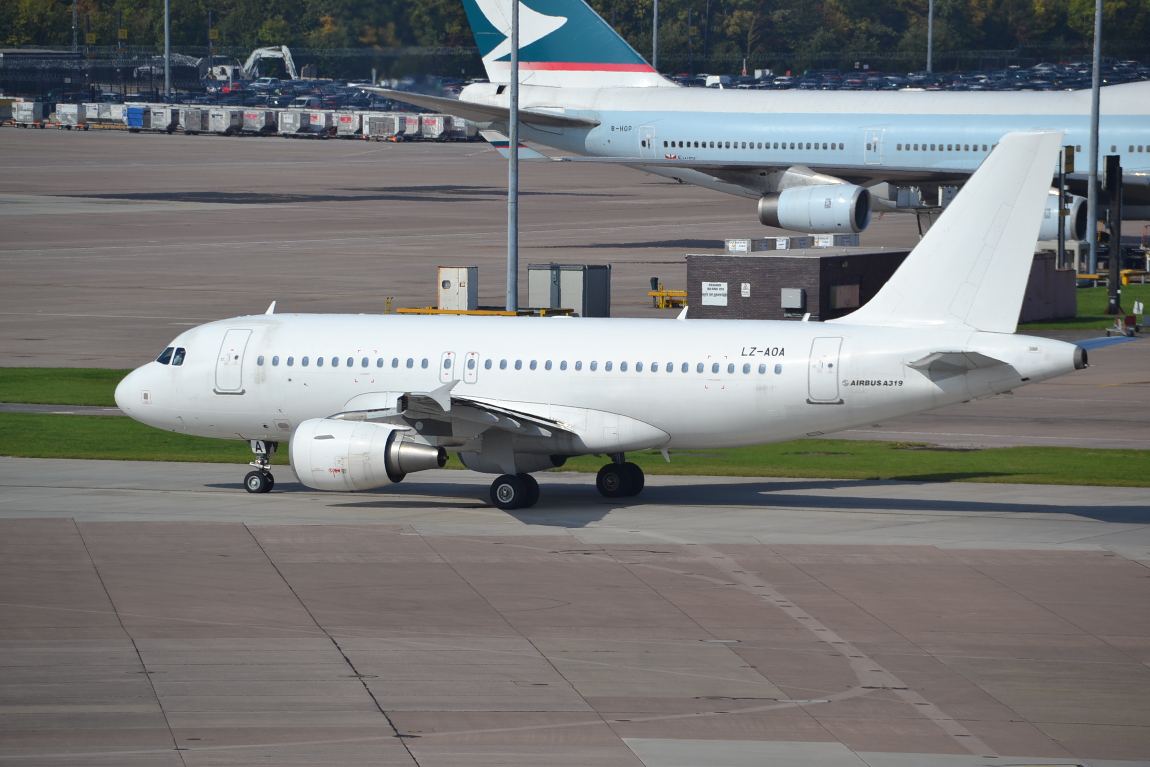 Airbus A319 of BH Air,operating for TAP Air Portugal,at Manchester-MAN, 16/09/14.